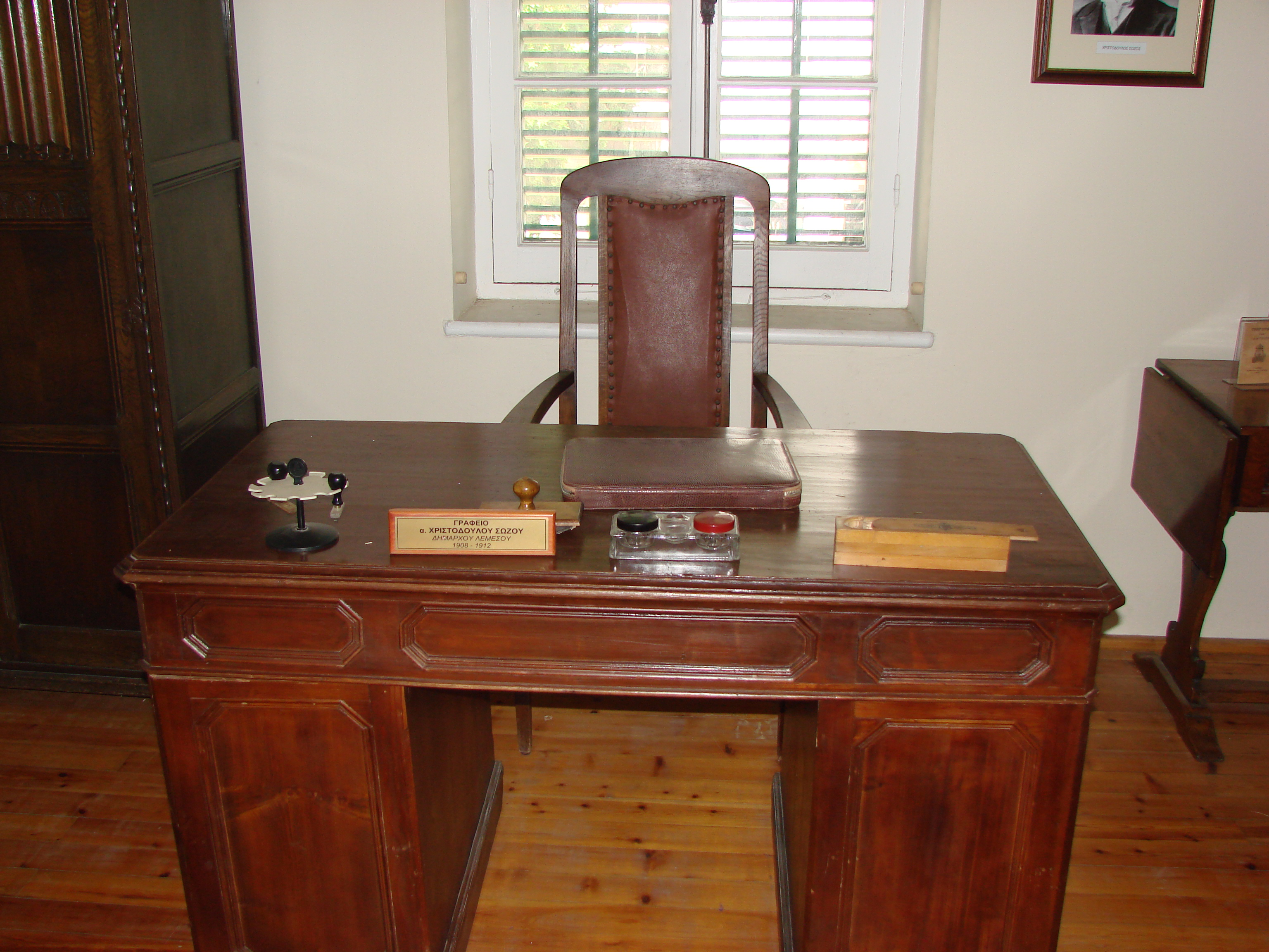 Christodoulos Sozos' office, Patticheion Museum, Limassol.